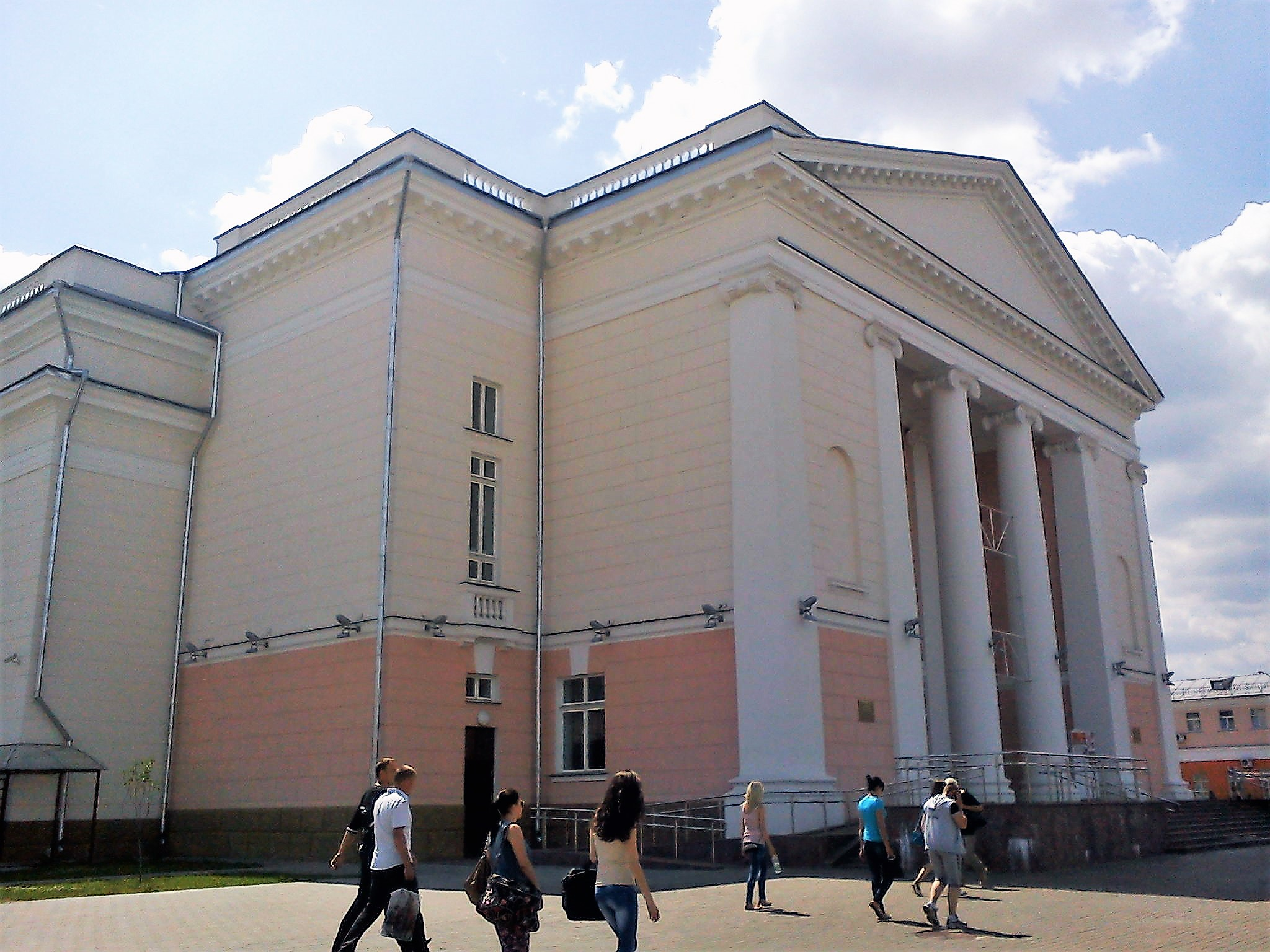 Palace of Culture of Railwaymen named after V.I.Lenin, Homieĺ